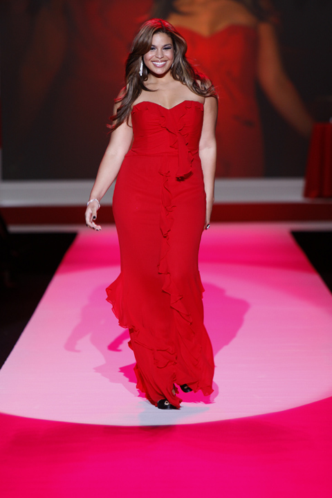 The Heart Truth® is a national awareness campaign for women about heart disease sponsored by the National Heart, Lung, and Blood Institute (NHLBI), part of the National Institutes of Health, U.S. Department of Health and Human Services (HHS). The Red Dress®, introduced by the NHLBI in 2002, is the national symbol for women and heart disease awareness. Visit for information on women and heart disease. ®, TM The Heart Truth, its logo and The Red Dress are trademarks of HHS. Participation by Mercedes-Benz Fashion Week, Diet Coke, Swarovski, Tylenol, St. Joseph's Aspirin, Bobbi Brown, and Brian Atwood does not imply endorsement by HHS.